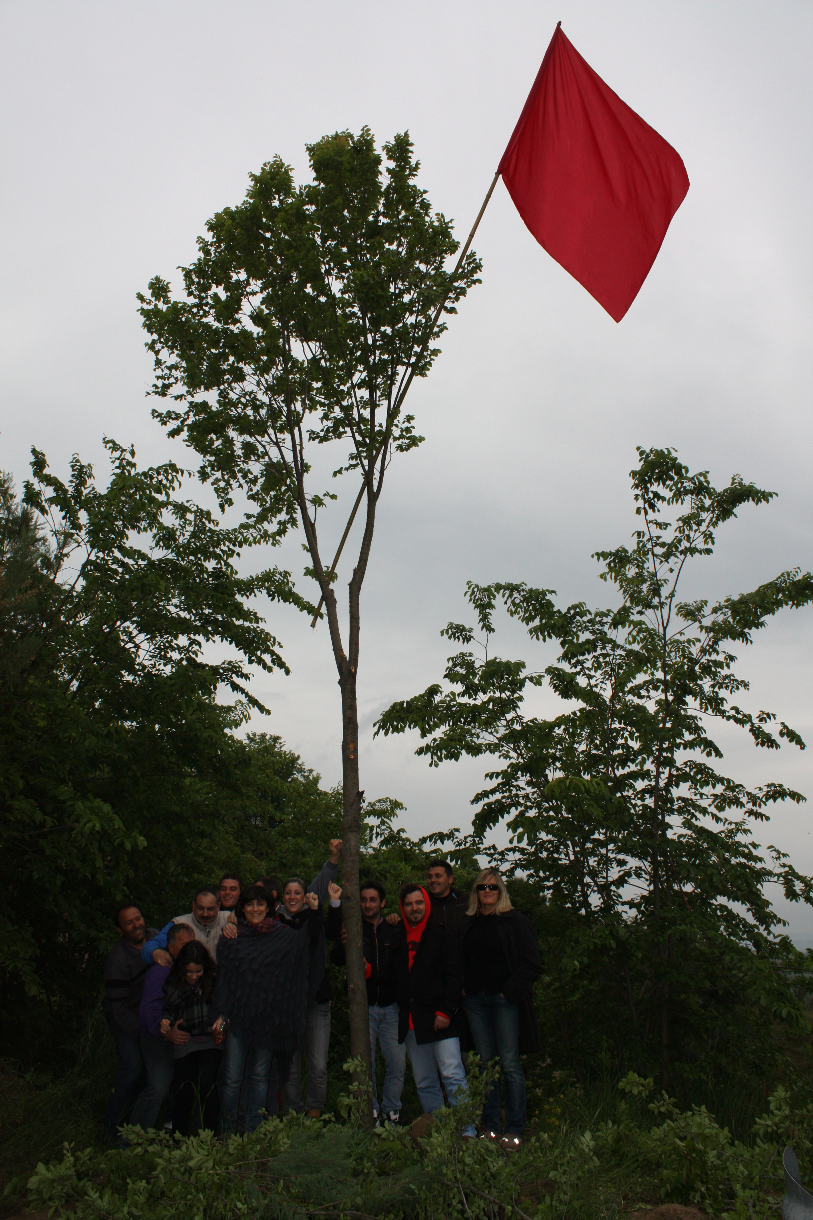 Every year, even today, on the night of 30 April, in many villages of Piceno like Appignano del Tronto citizens cut a poplar on which they put-up a red flag and the tree is erected in village squares or at crossroads.